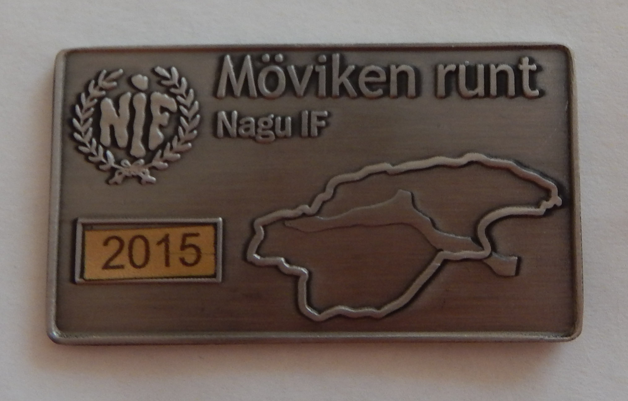 Medal for participating in Möviken runt